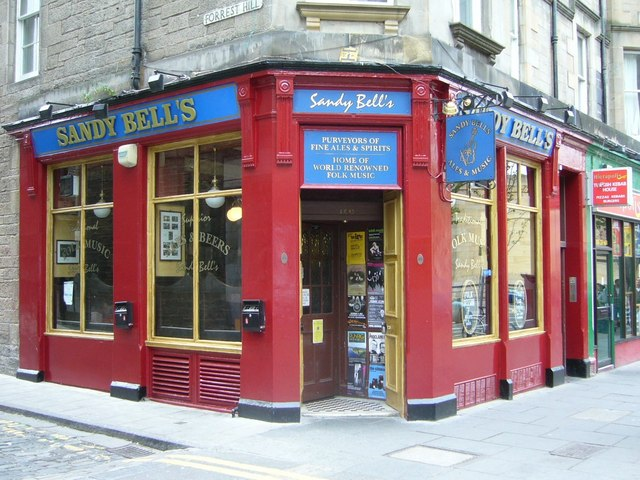 Sandy Bell's, Forrest Road The Forrest Hill Bar, re-named after a former landlord's nickname, is world-famous for its folk music entertainment. One regular patron was the late Hamish Henderson who founded the University's School of Scottish Studies after the Second World War and was a key figure in the Scottish (British) Folk Revival of the 1950s and 60s. Folk artists, both local and international, simply drop in and contribute to the spontaneous and impromptu performances.